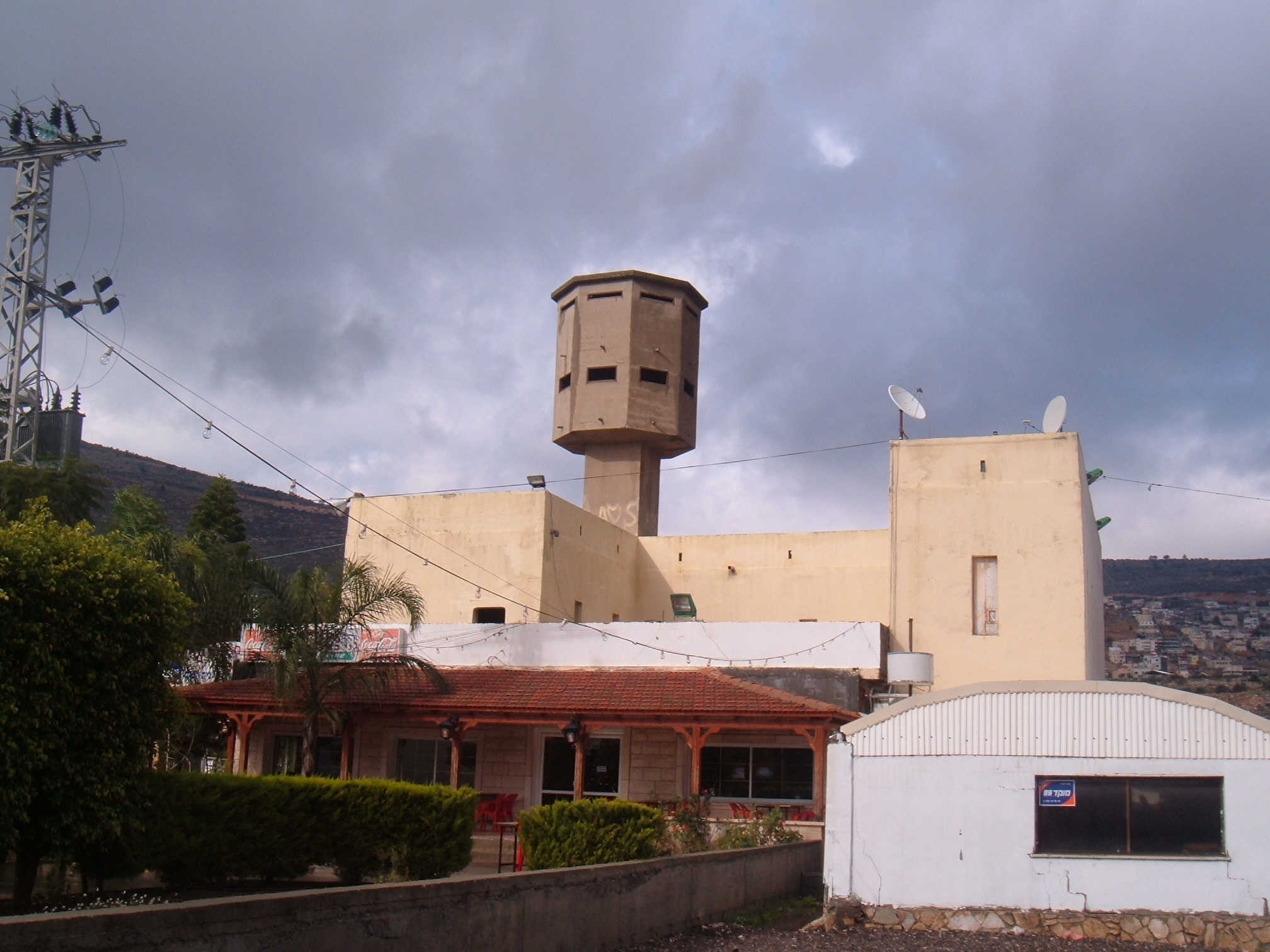 Teggart fortress in Majd-El-Kurum, Shagur, Israel, nowdays being used as a restaurant.